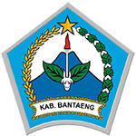 Bantaeng Regency Logo